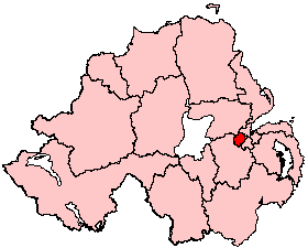 image based on one created by User:Keith Edkins